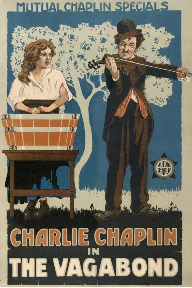 Promotional poster for the Charlie Chaplin film The Vagabond (1916).